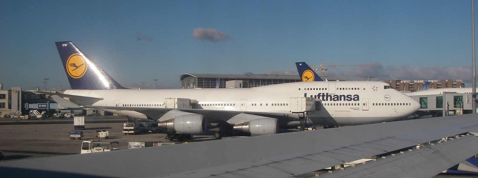 Boeing 747-400 at Rhein-Main-Flughafen international in Frankfurt-am-Mein